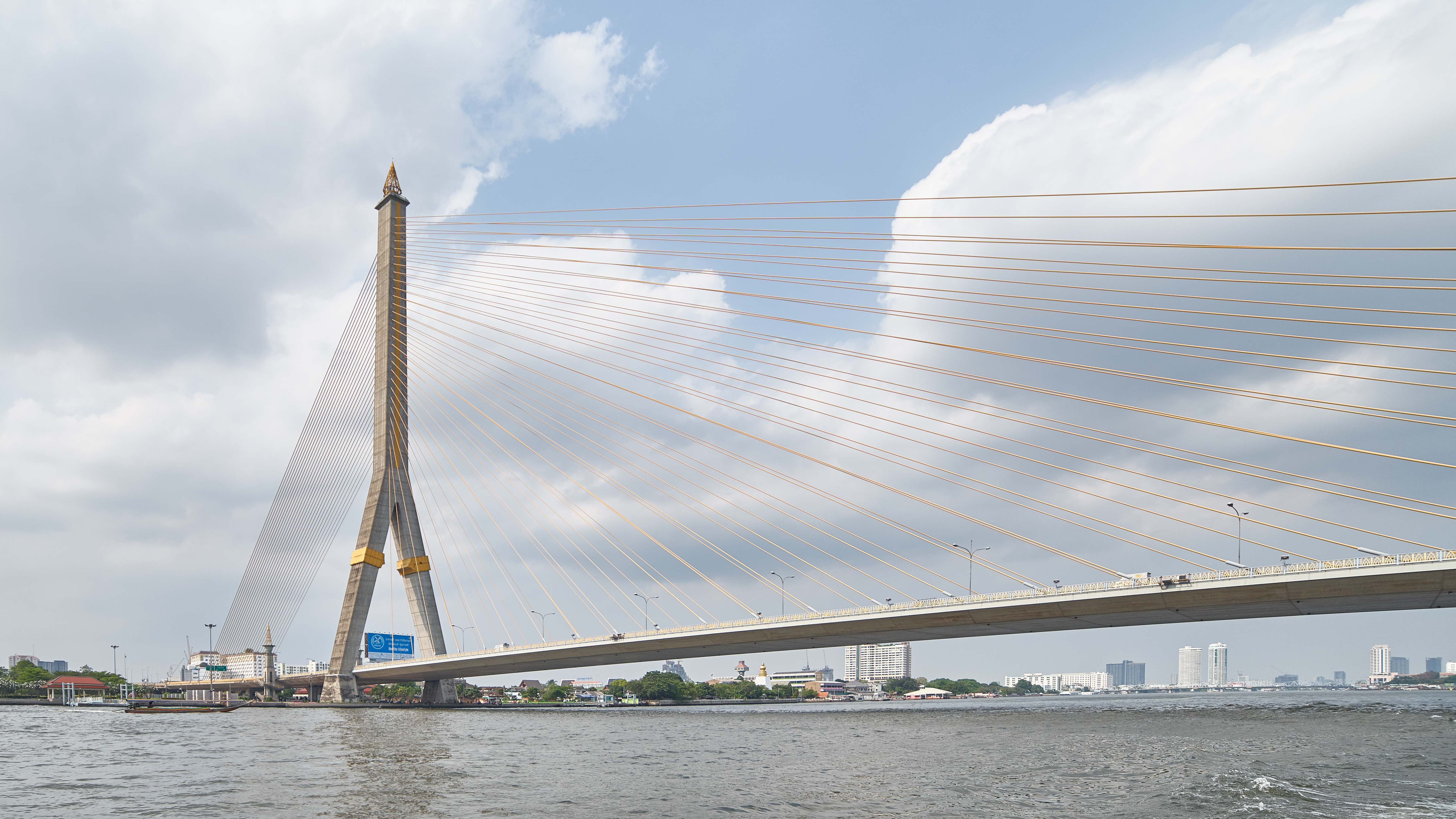 Rama 8 Bridge spans the Chao Phraya River in Bangkok, Thailand. Constructed in 1999-2002, the bridge opened another route for river crossing traffic.